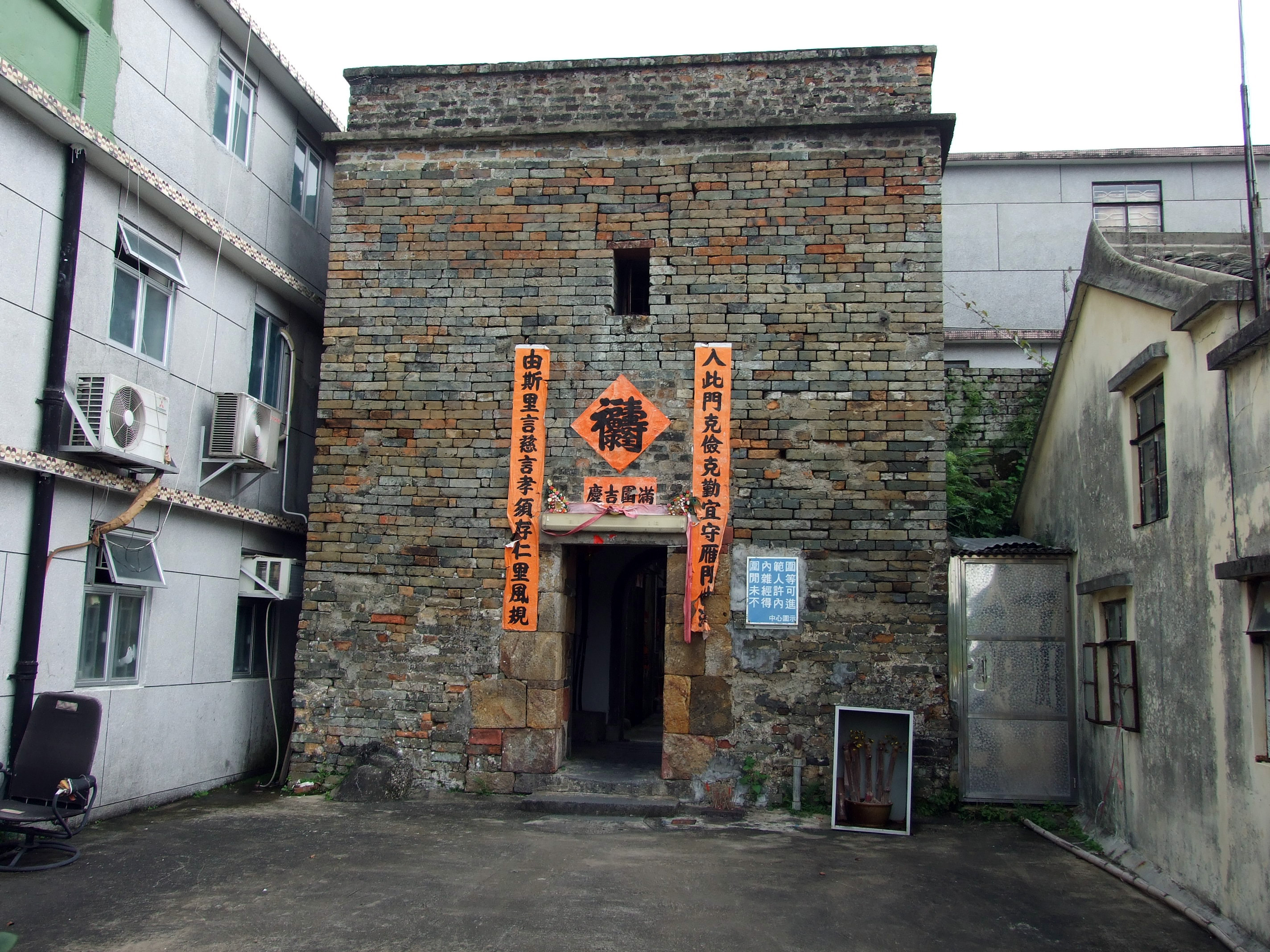 中文（香港）: 泰亨鄉中心圍Chung Sum Wai, a walled village in Tai Hang, Tai Po District